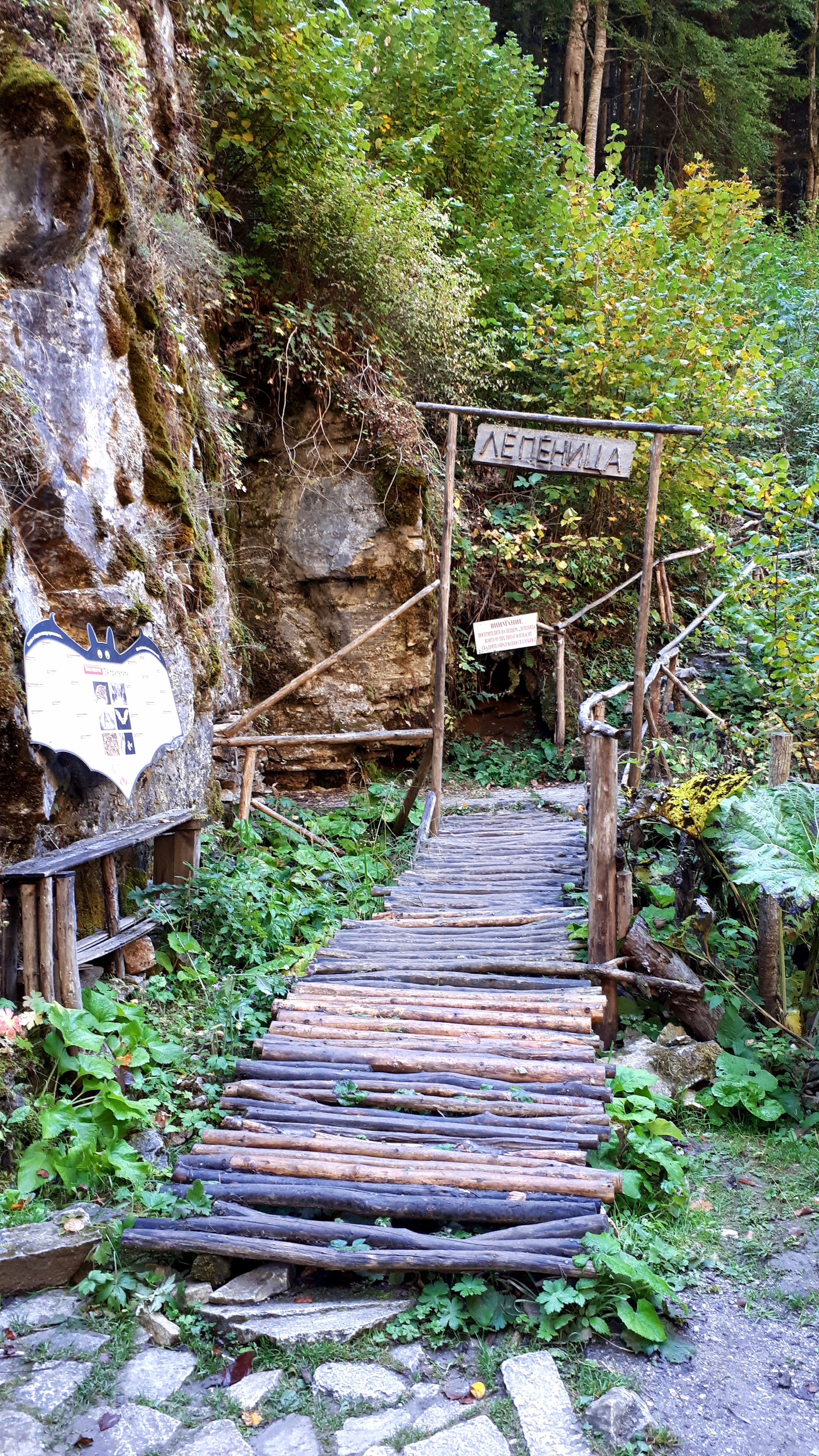 Lepenica (cave)